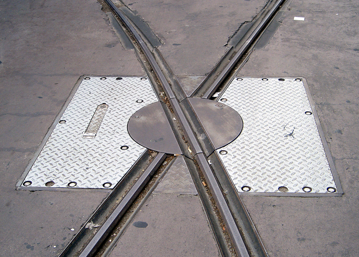 Unlike the GLT/TVR and ordinary trams where rail routes cross the Translohr requires special equipment which maintains continuous guidance.